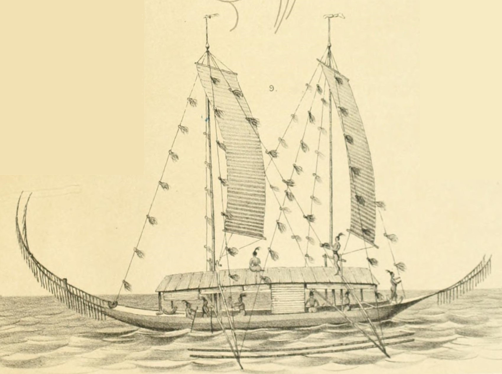 A war vessel of Mentawai islands, called knabat bogolu. This vessel is encountered by von Rosenberg at sea on crossing from Siberut to Pora in 1847.